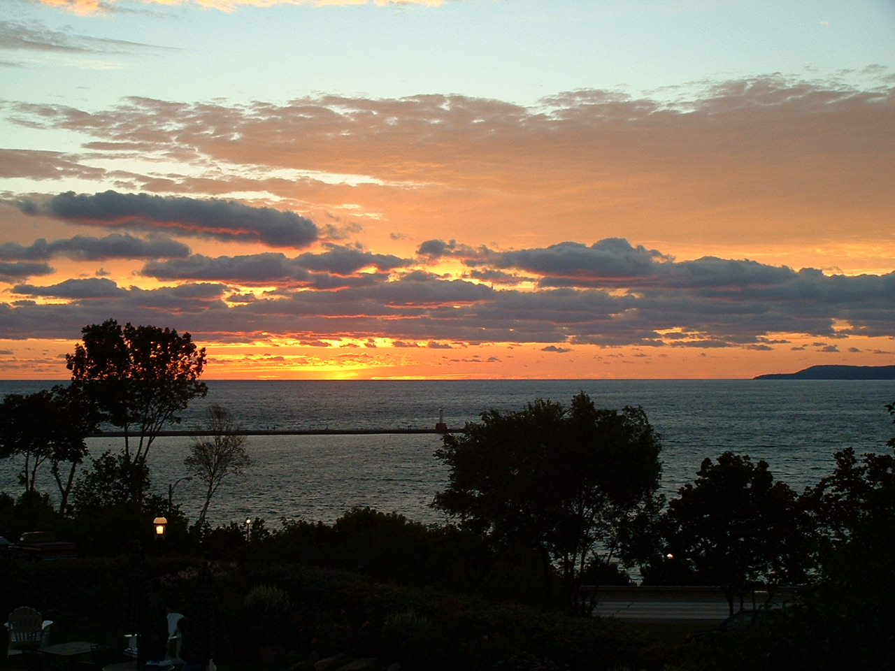 Little Traverse Bay at sunset, viewed from Petoskey, Michigan, taken July 2005.